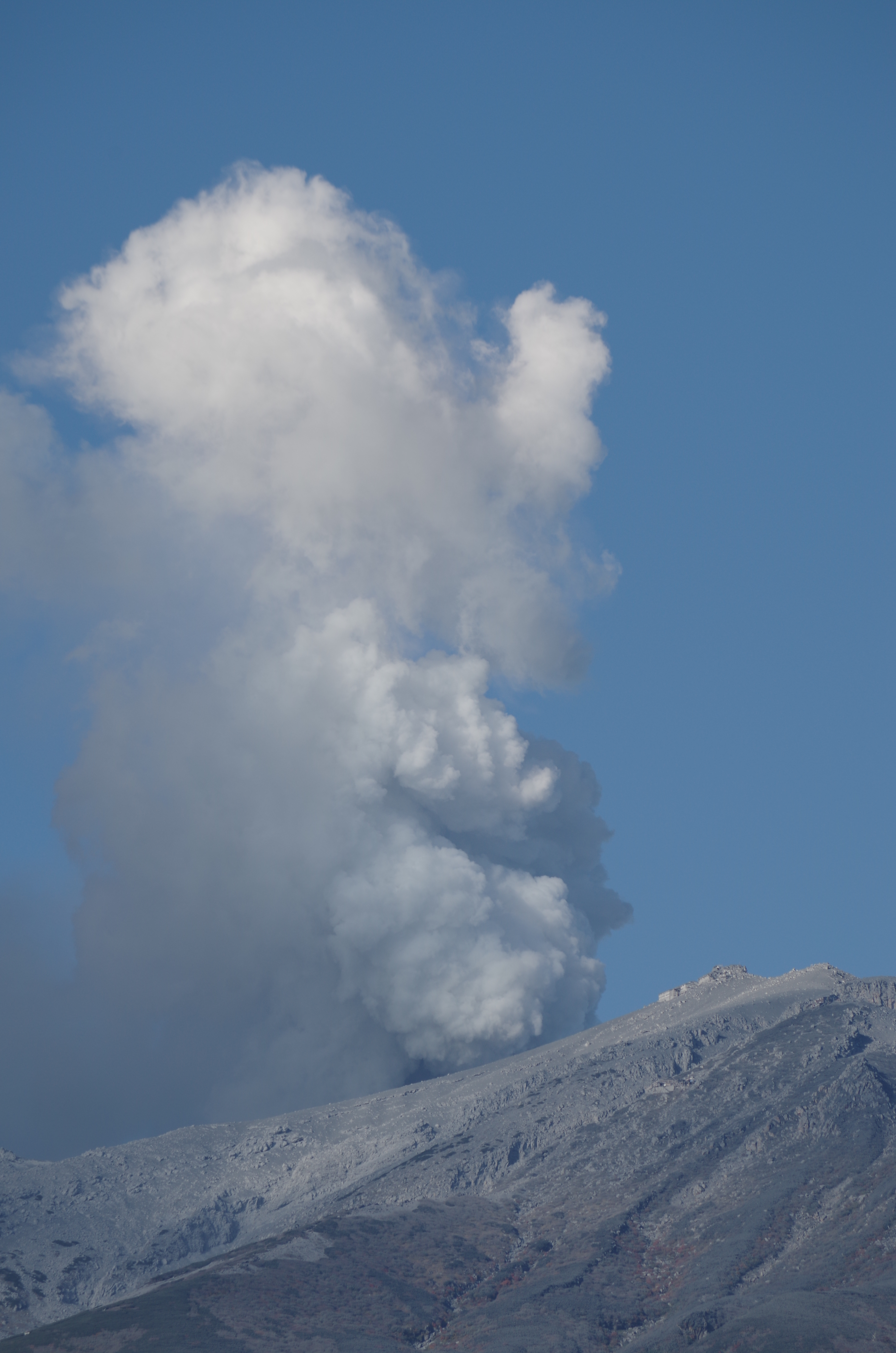 開田高原から見た、御嶽山の噴煙。2014年9月28日(噴火翌日)撮影。